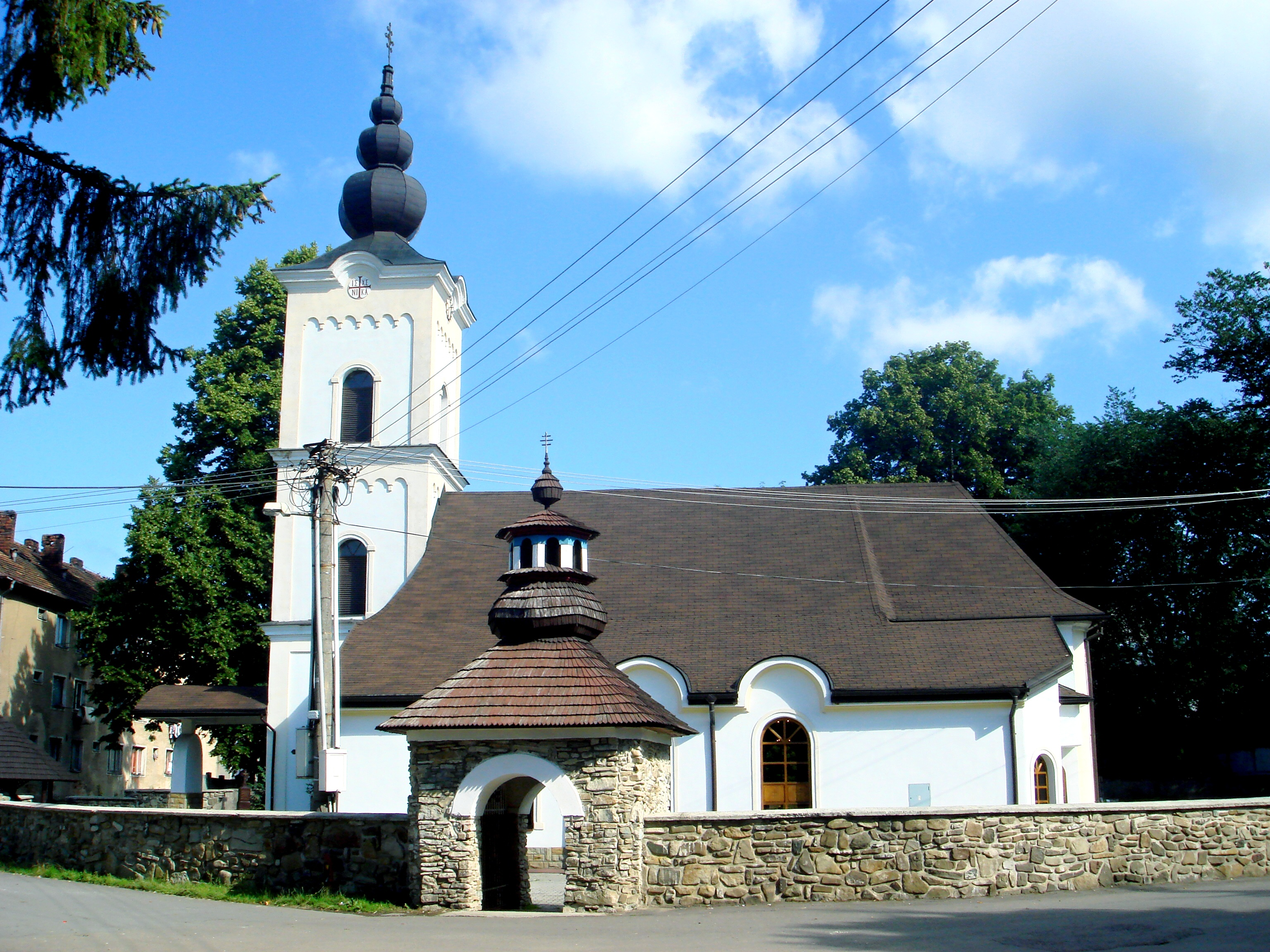 Greek Catholic church of Saint Basil the Great in Medzilaborce (Prešov Region, Slovakia).